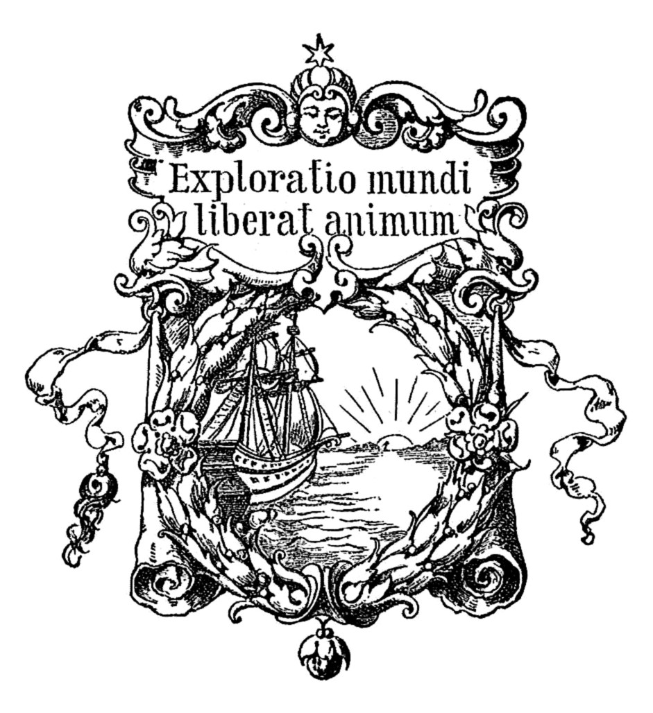 signet of the Mittelschweizerischen Geographisch-Commerciellen Gesellschaft, designed by Eugen Steimer